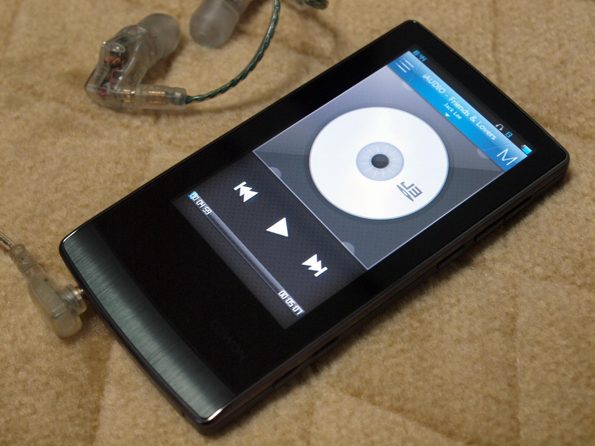 COWON J3